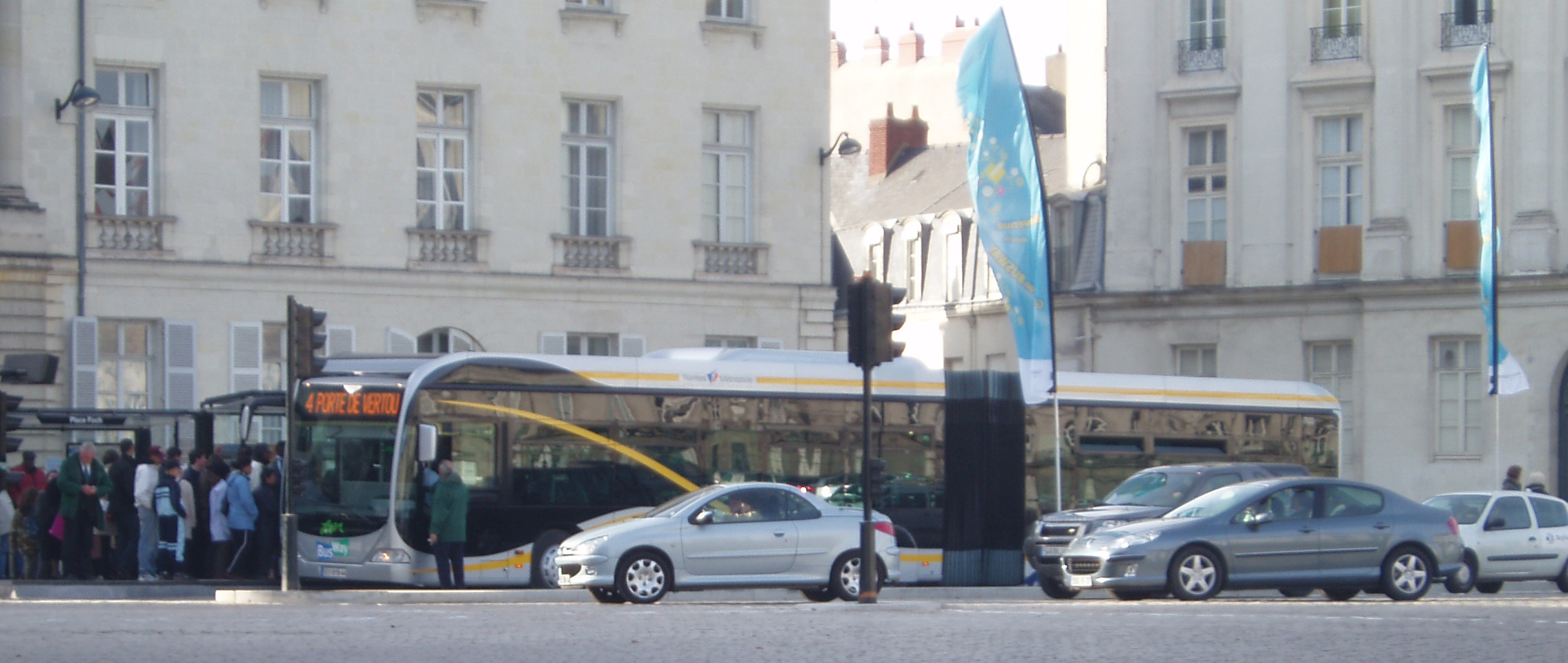 Busway de Nantes (TAN) au terminus "Place Foch"le 4 novembre.